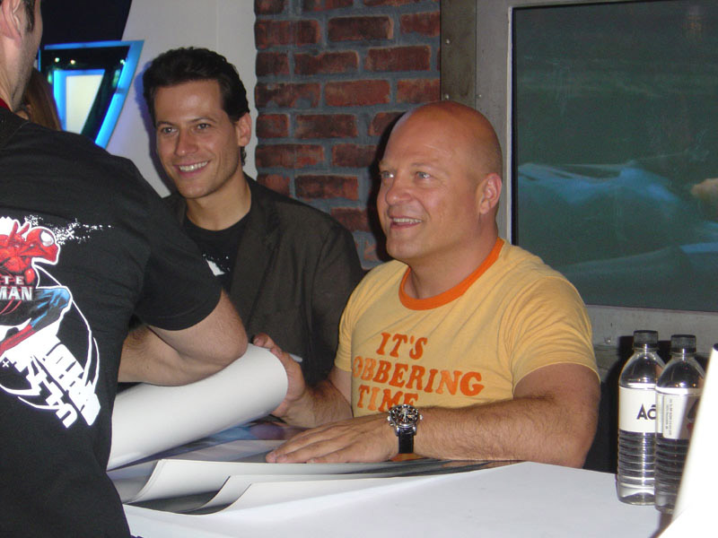 Ioan Gruffudd and Michael Chiklis, actors of the Fantastic Four films.